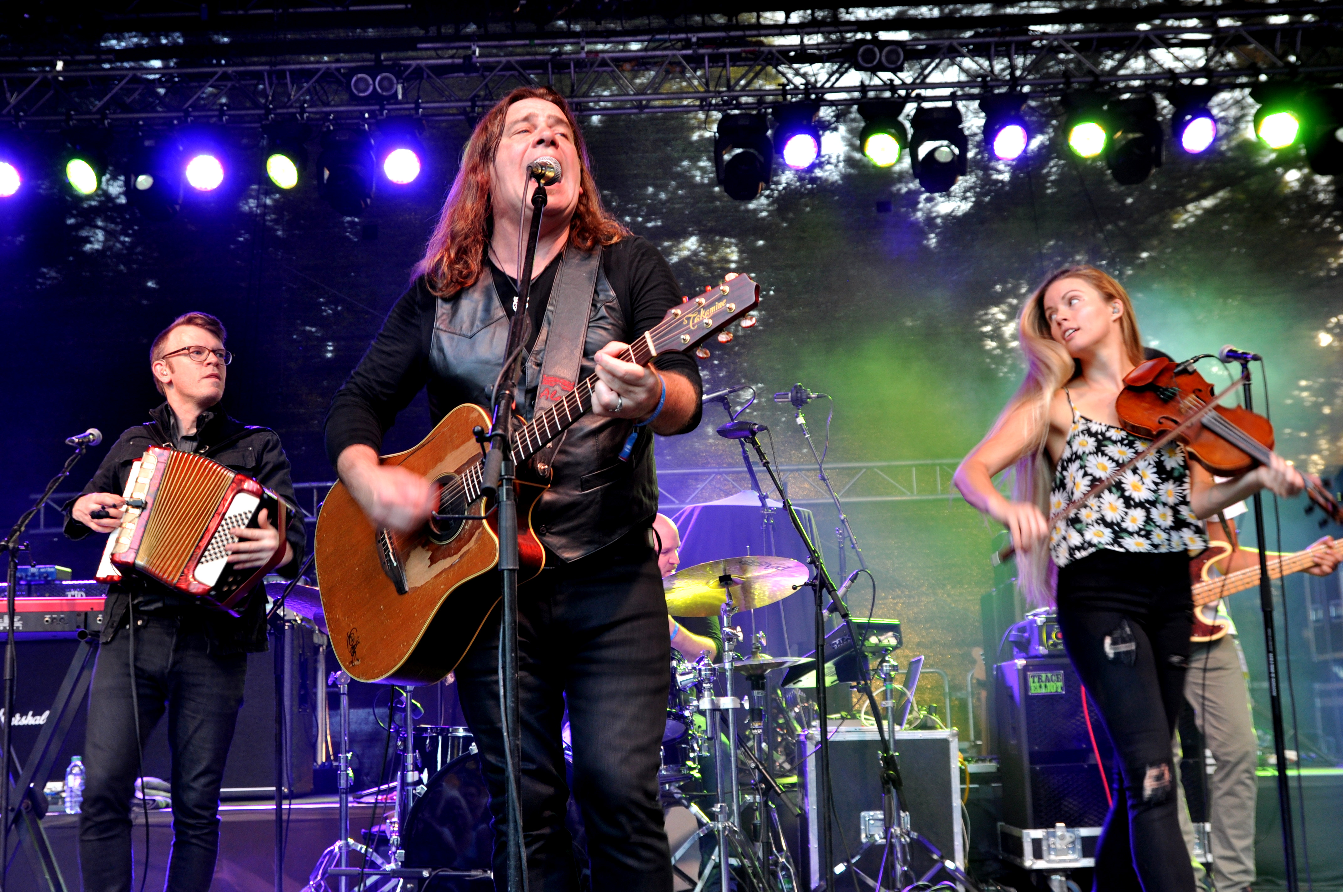 Alan Doyle and band (CAN) appearance at the 2017 blacksheep festival at Bonfeld castle, Bad Rappenau, Baden-Wuerttemberg, Germany Festivalsommer This photo was created with the support of donations to Wikimedia Deutschland in the context of the CPB project "Festival Summer".